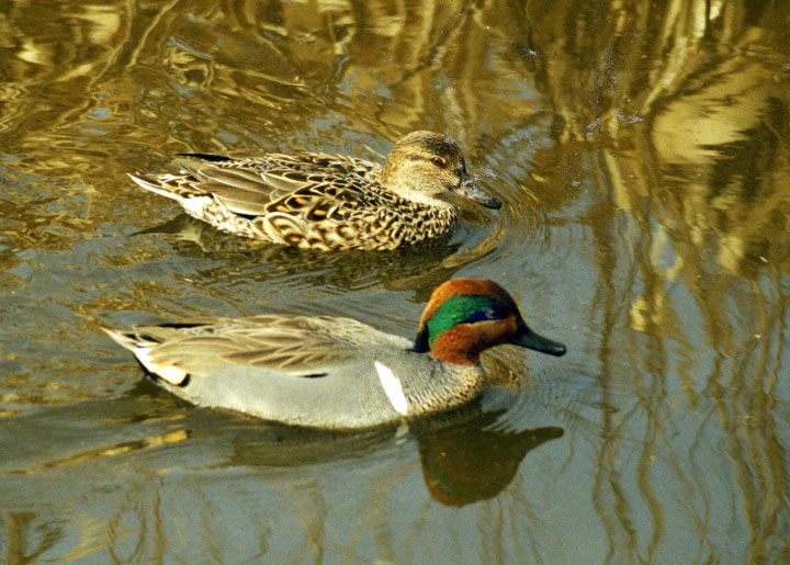 Known in Latin America as the Cerceta Aliverde. In context at